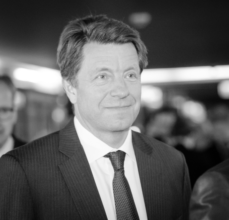 A guest (Christian Begby, [1]) at Governor Øystein Olsen's annual address in February 2018